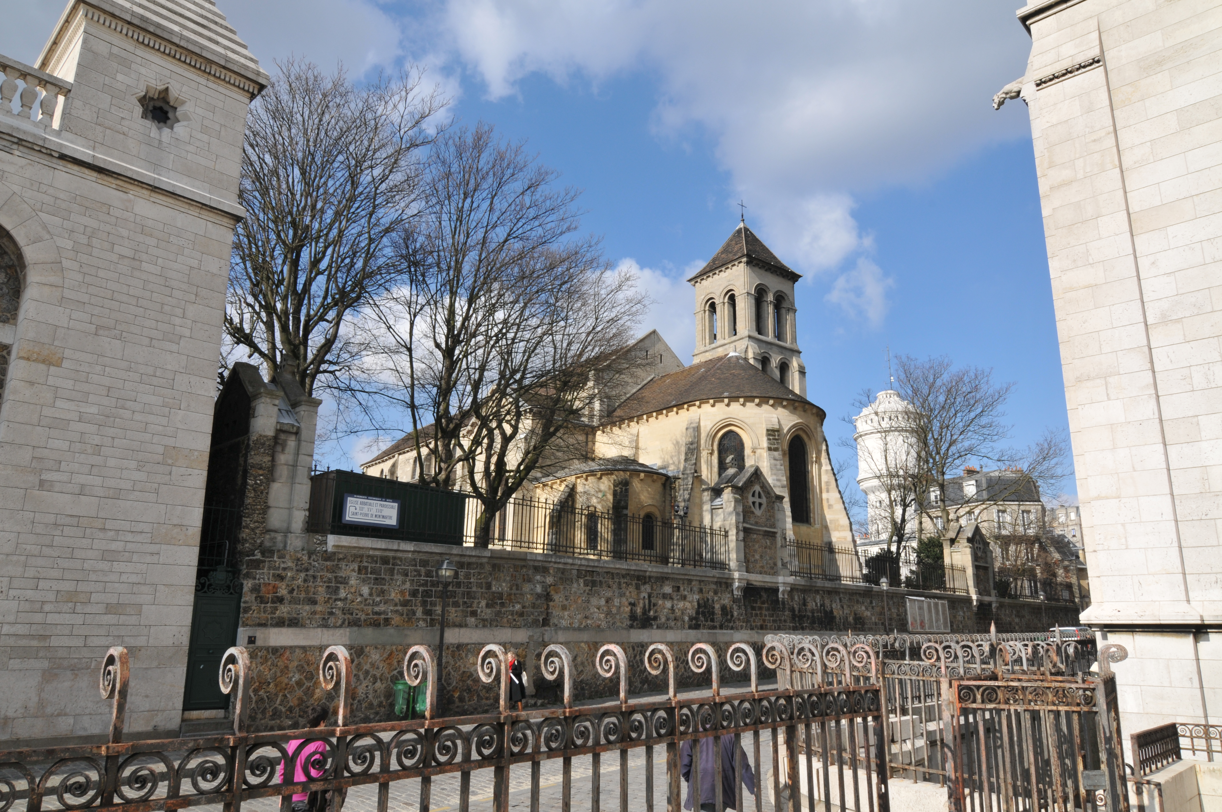 on my way to place du Tertre